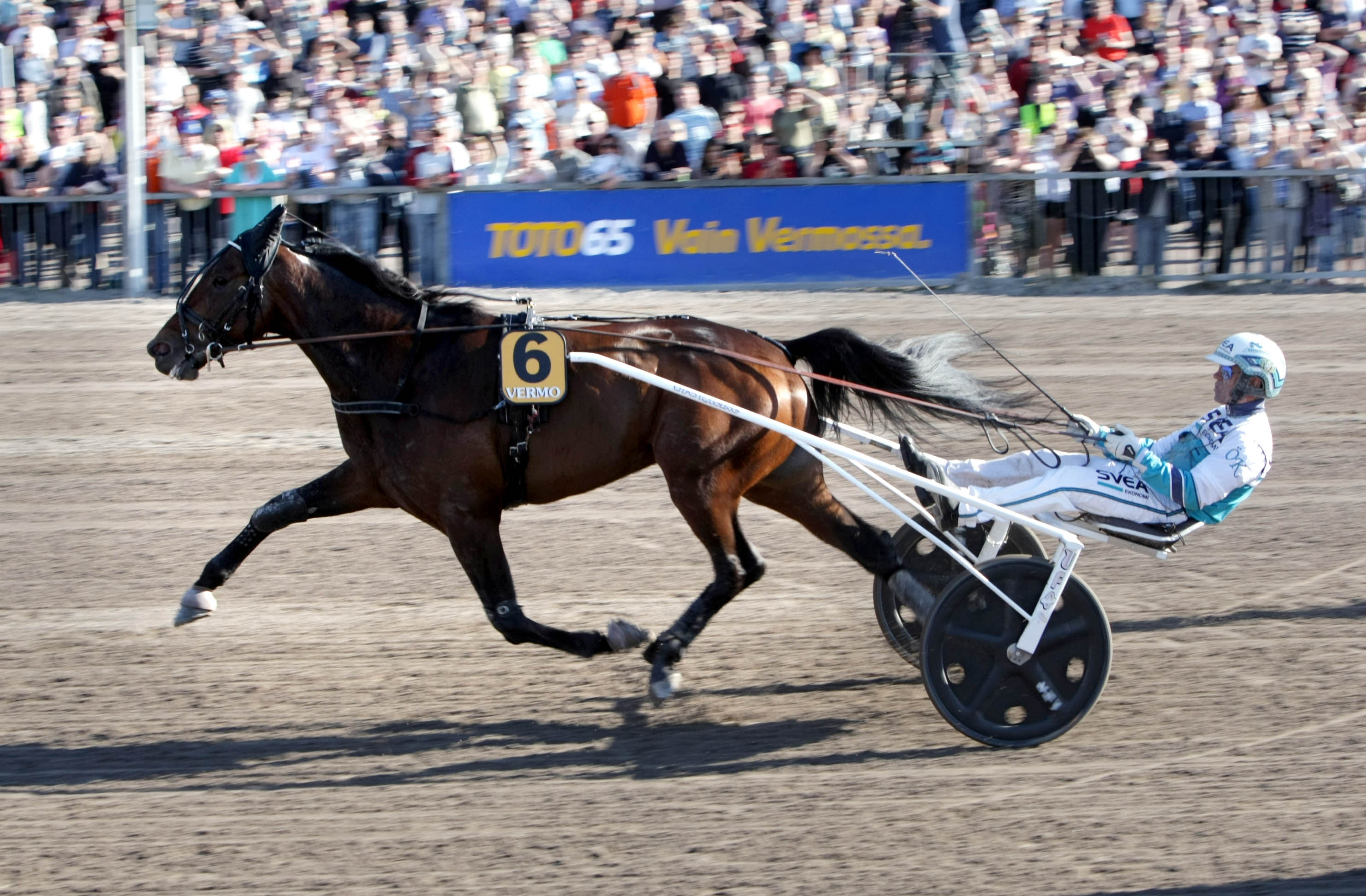 Propulsion and driver Örjan Kihlström at Finlandia-Ajo 2016